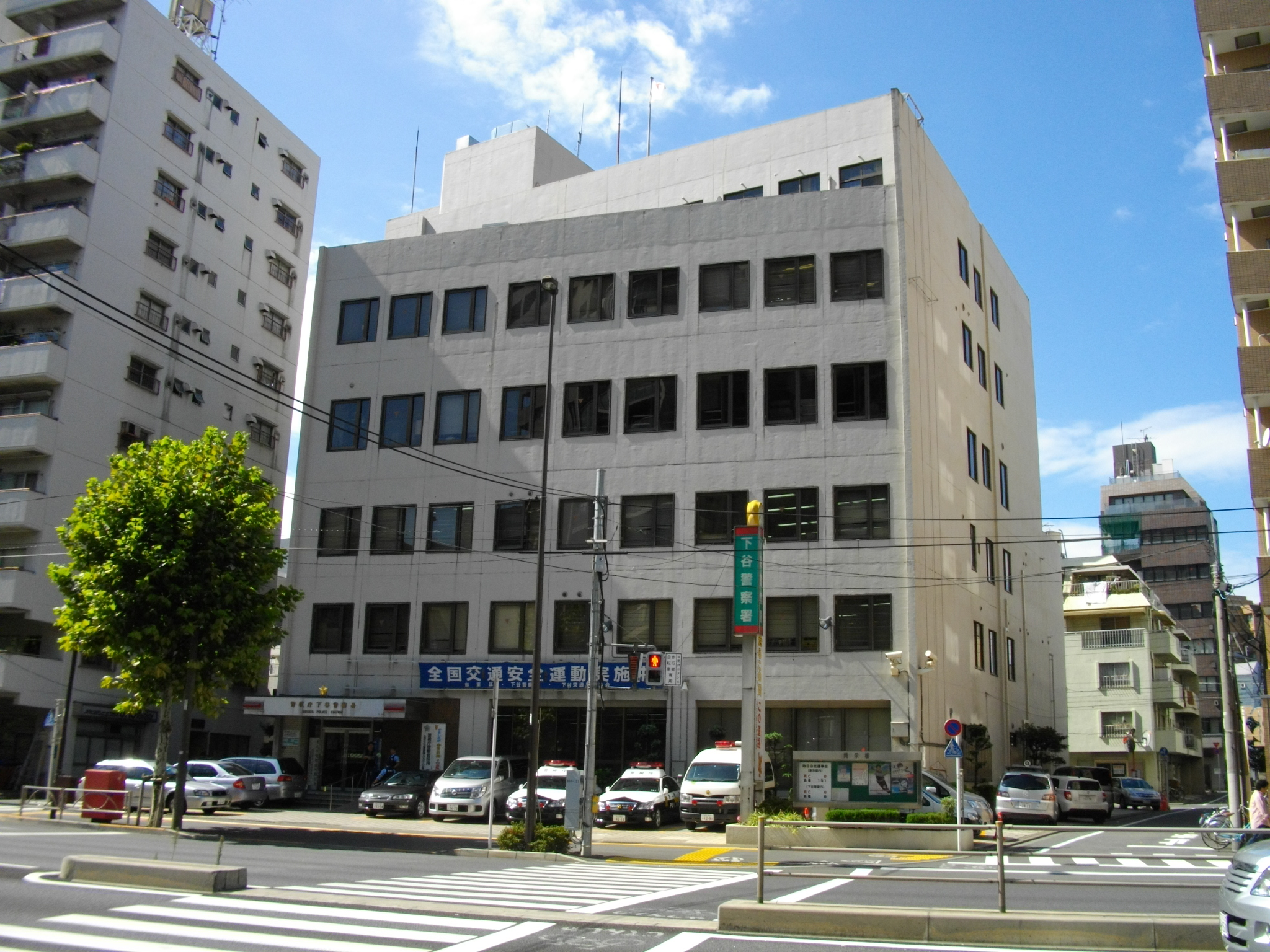 Shitaya Police Station